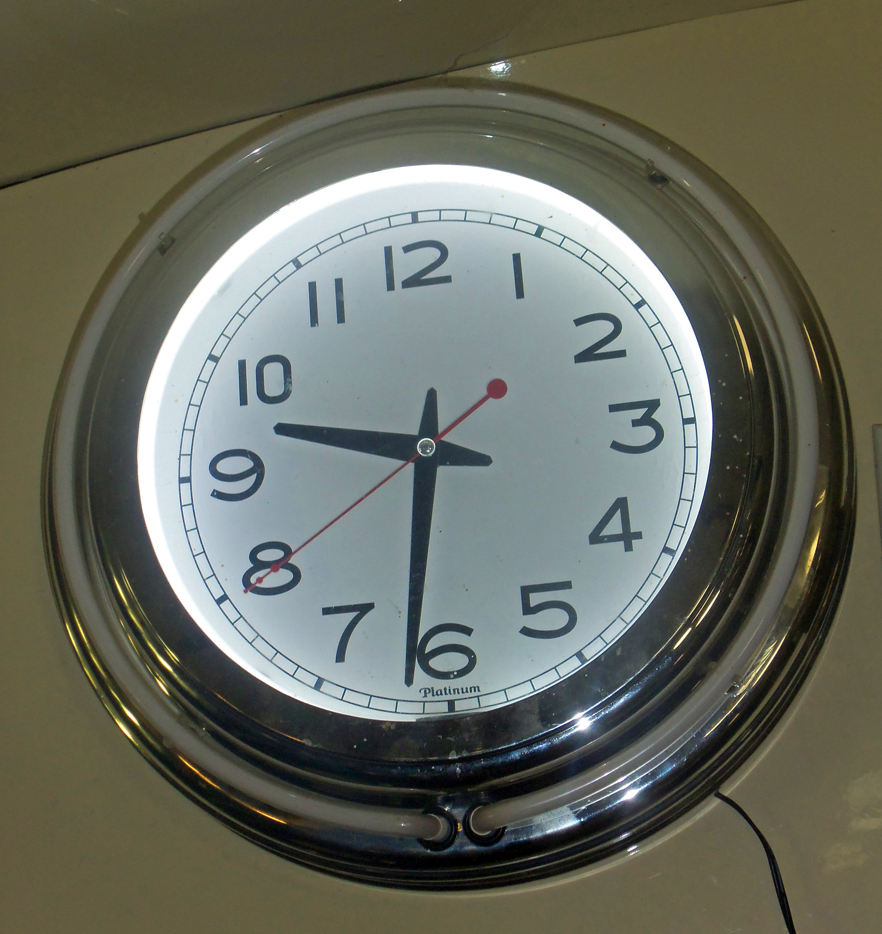 Original Art Deco wall clock at Village Diner, Red Hook, NY, USA